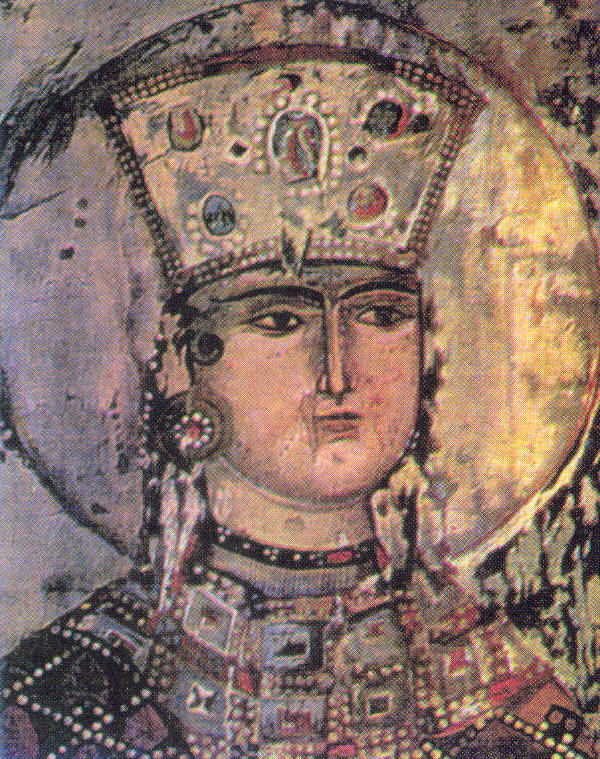 Queen Tamar of Georgia (r. 1178/1184-1213).